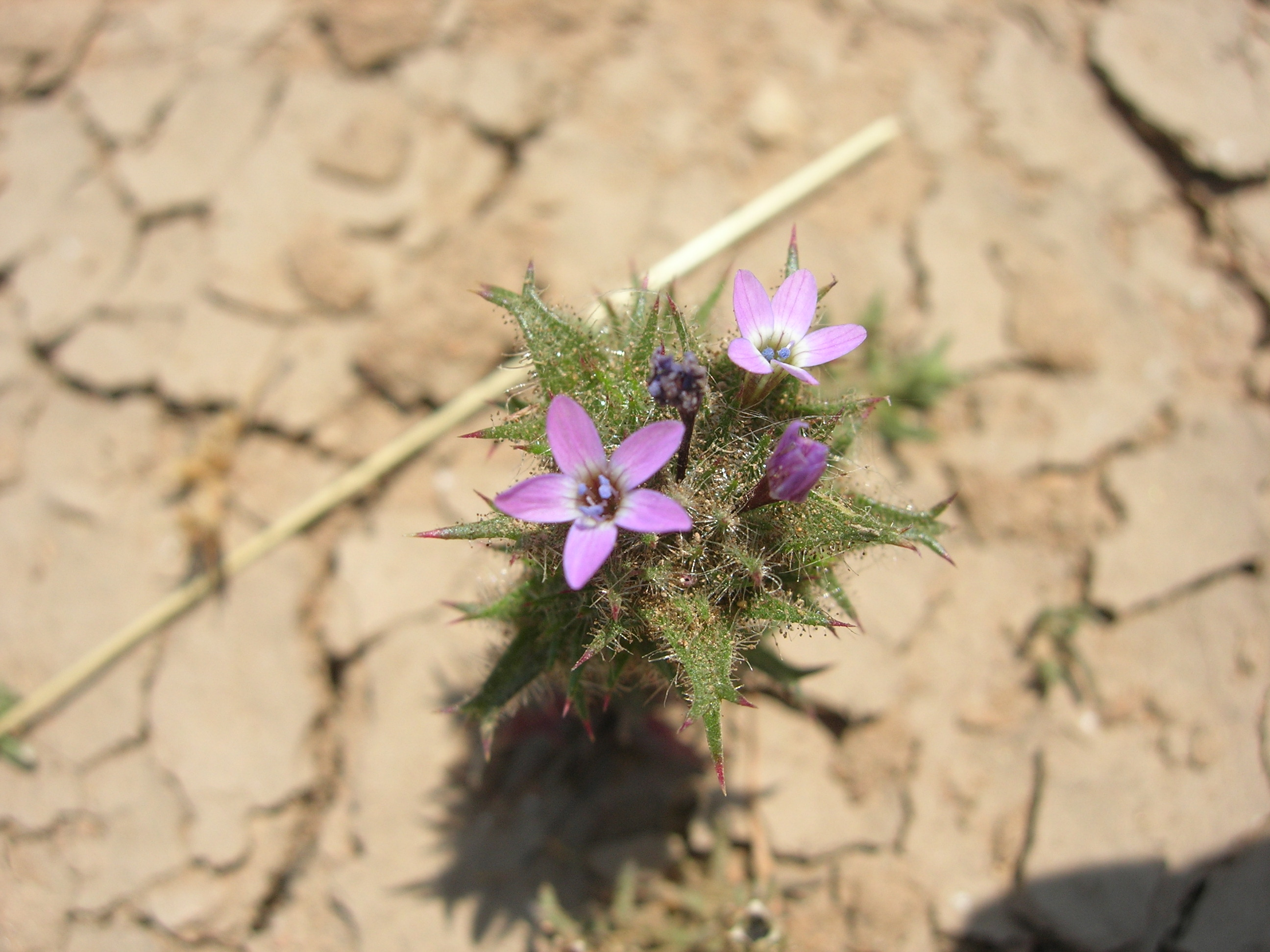 Navarretia hamata, Otay Mountain, San Diego County, CA, USA